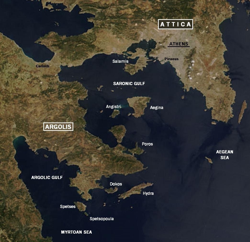 Inhabited islands of Argo-saronic, Greece